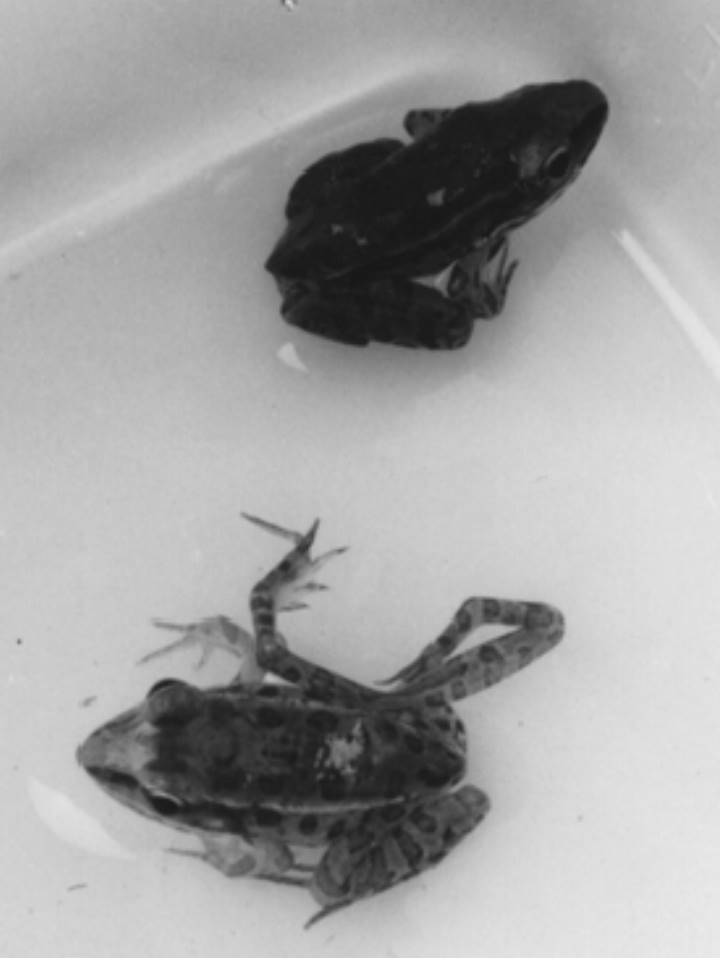 Southern Leopard Frogs from Southern Illinois